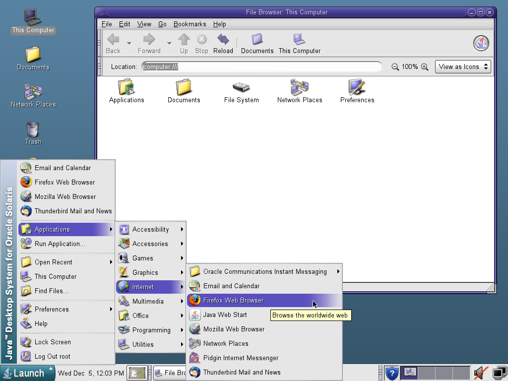 Java Desktop running on Solaris 10 Português do Brasil: Java Desktop rodando em Solaris 10